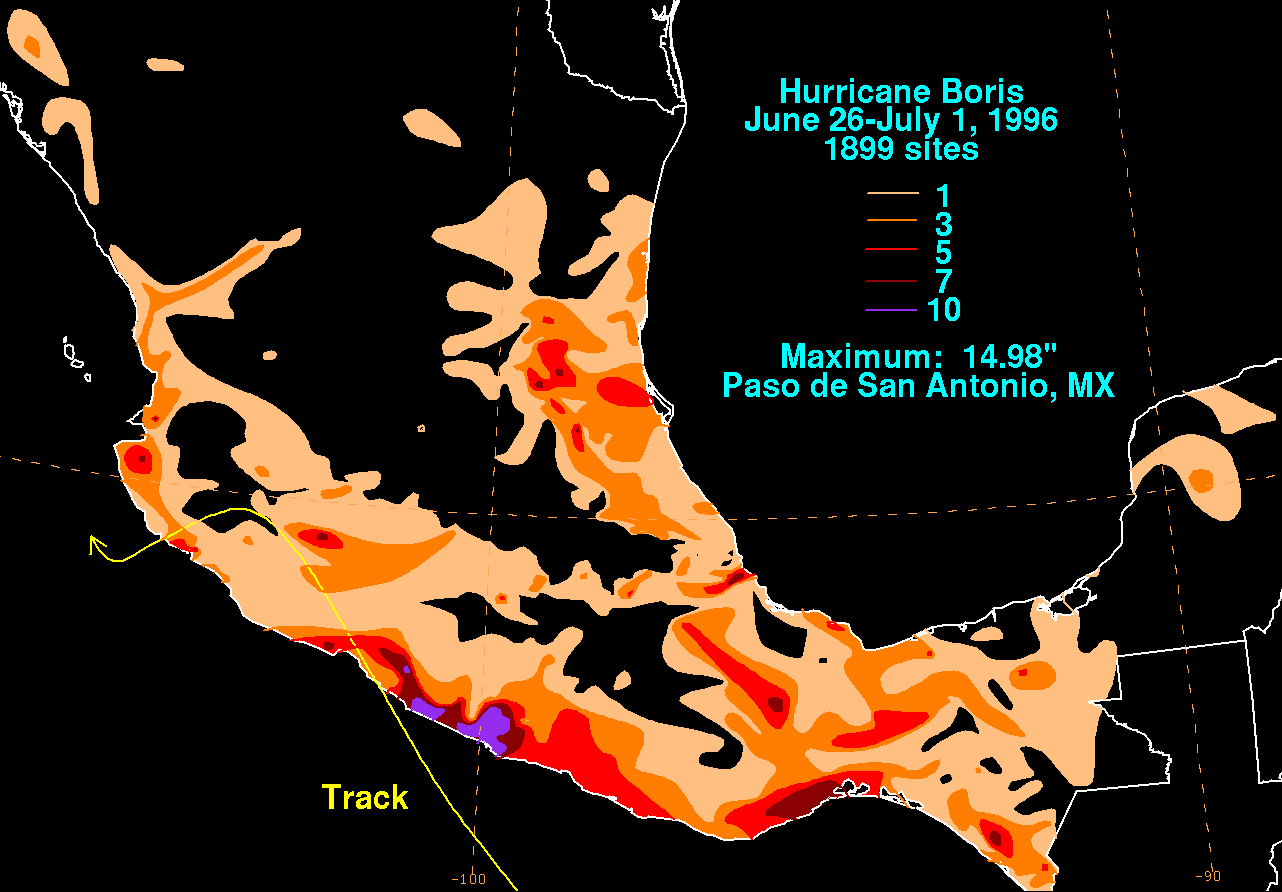 Storm total rainfall map of Hurricane Boris during June and July 1996.